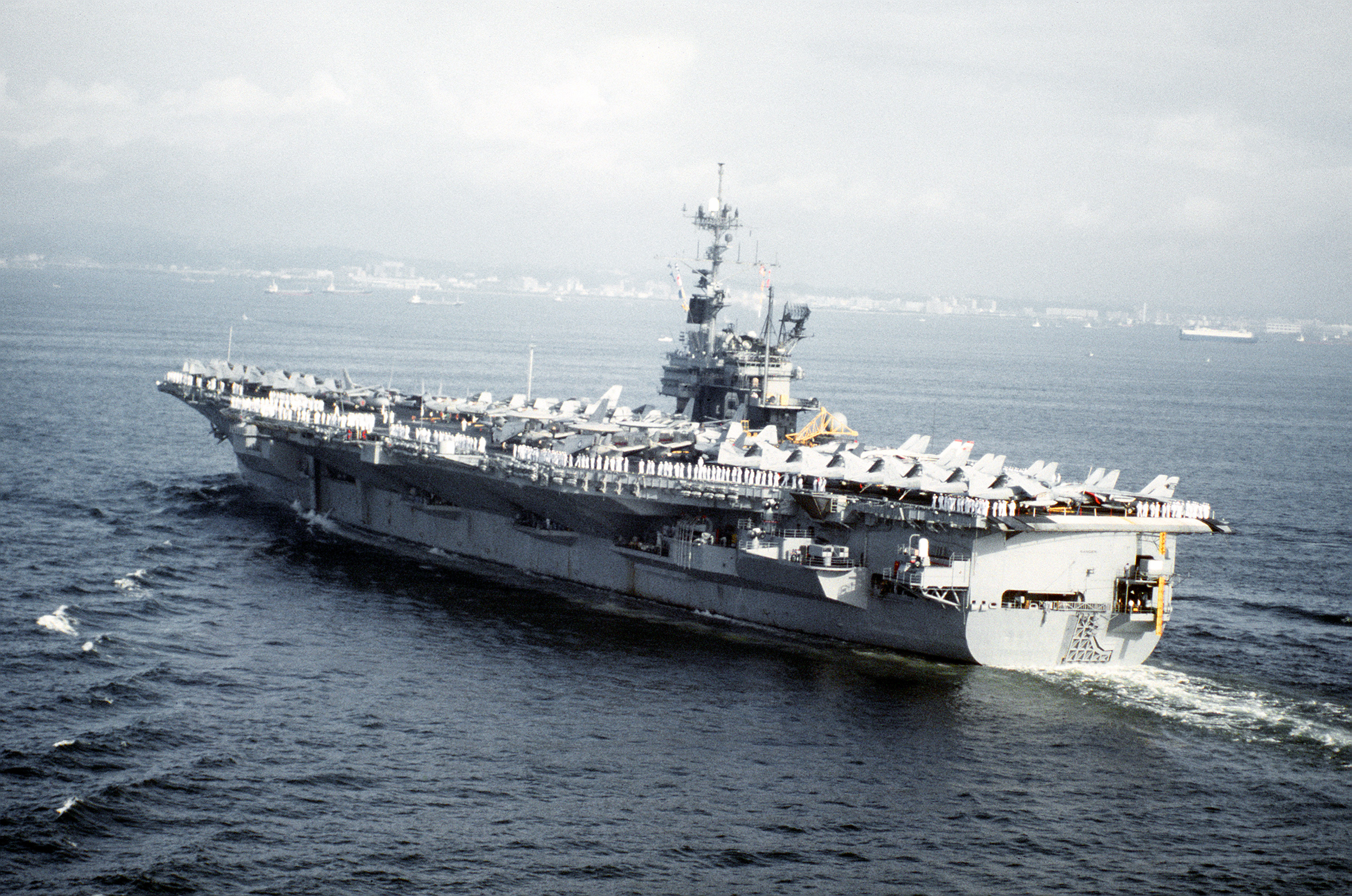 A port quarter view of the aircraft carrier USS RANGER (CV-61) approaching port at Yokosuka on its last visit to Japan. The RANGER is on its final deployment prior to decommissioning.